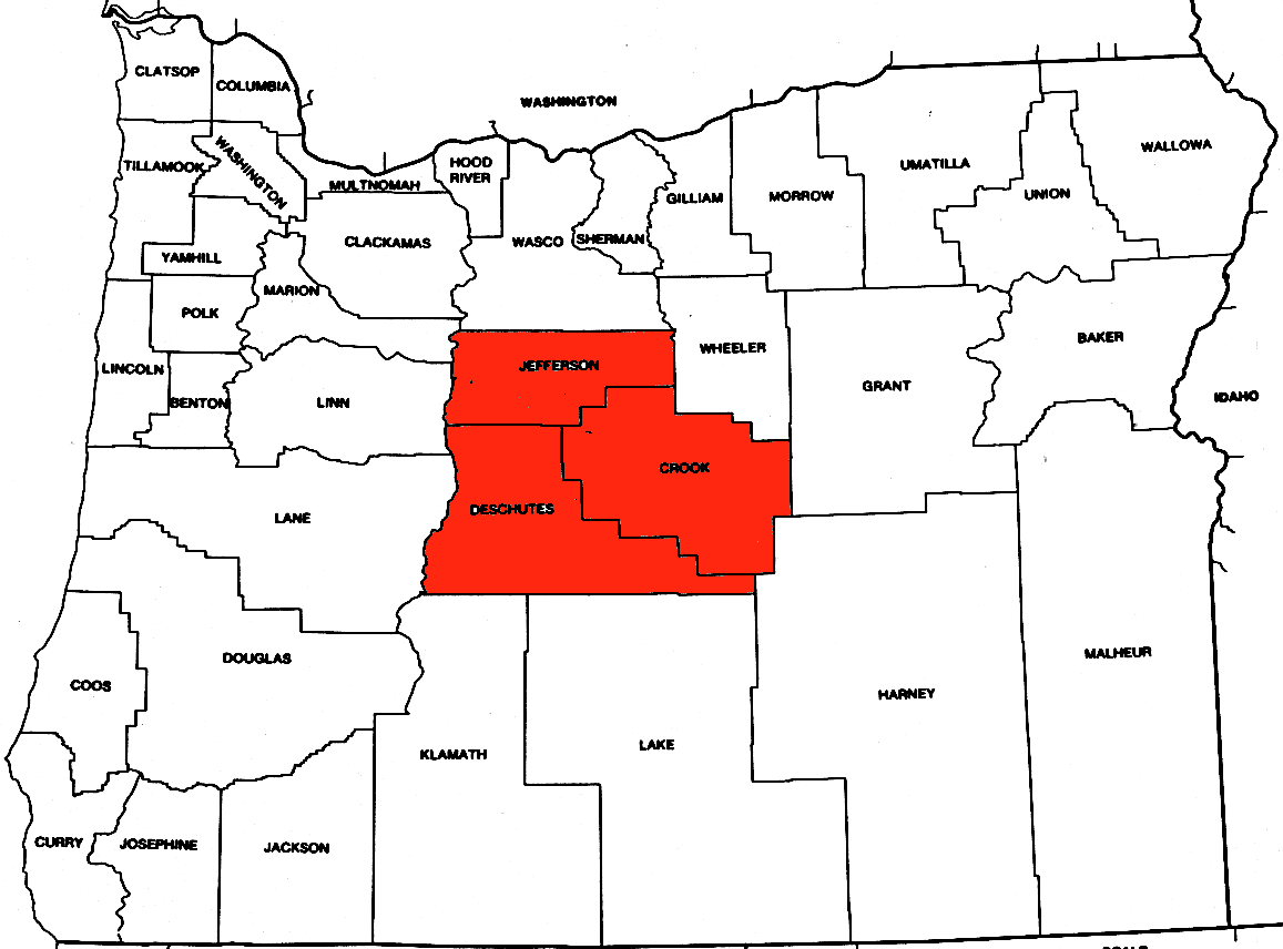 Location of Central Oregon in Oregon based on Image:Oregon Counties.gif